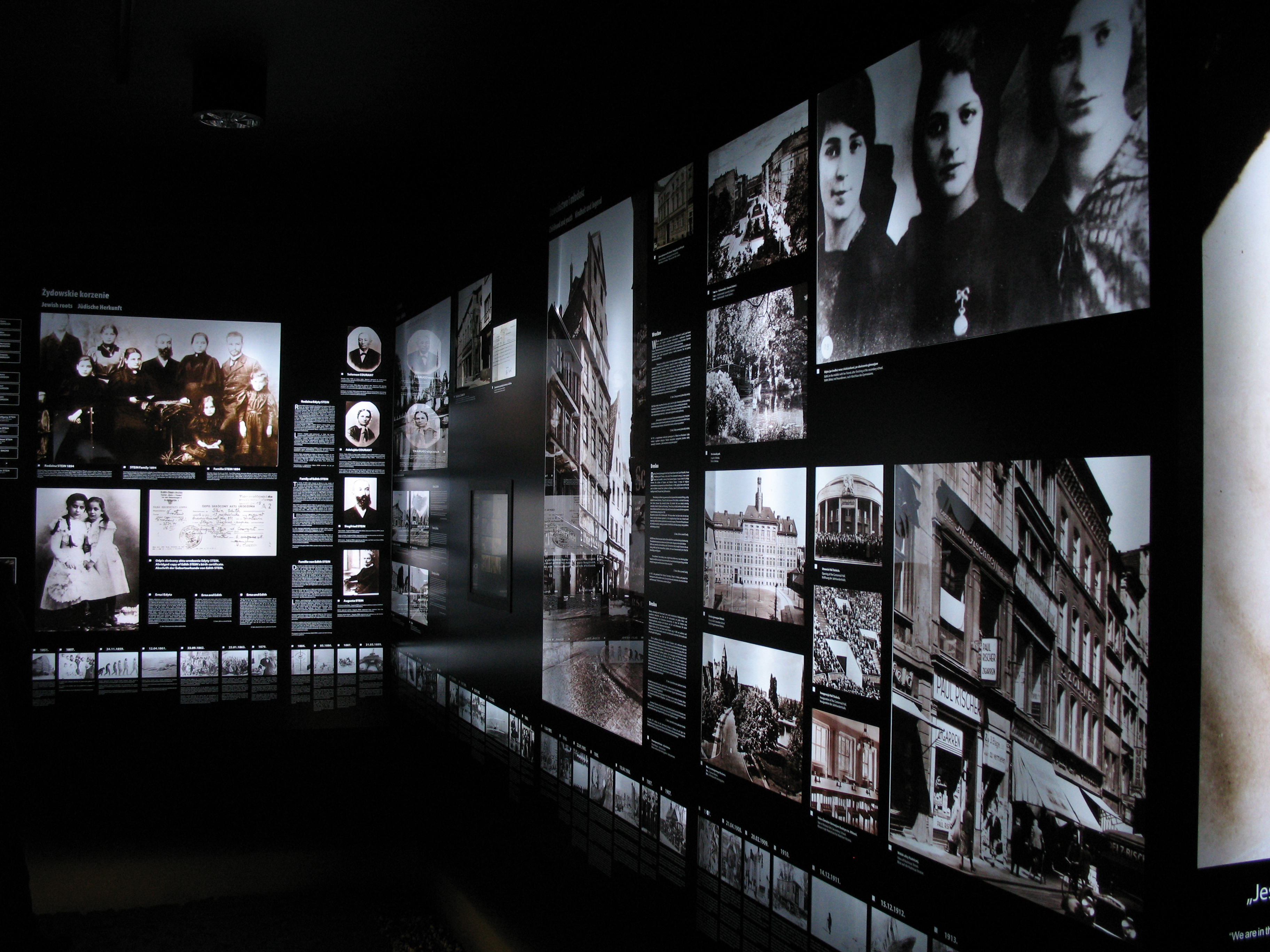 Exhibition in Museum Pro Memoria Edith Stein in Lubiniec.